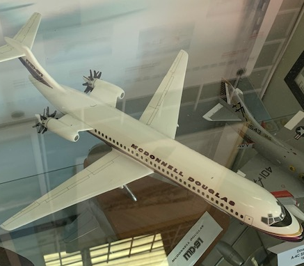 Desktop model of McDonnell Douglas MD-91 propfan airliner project at Western Museum of Flight, January 2020